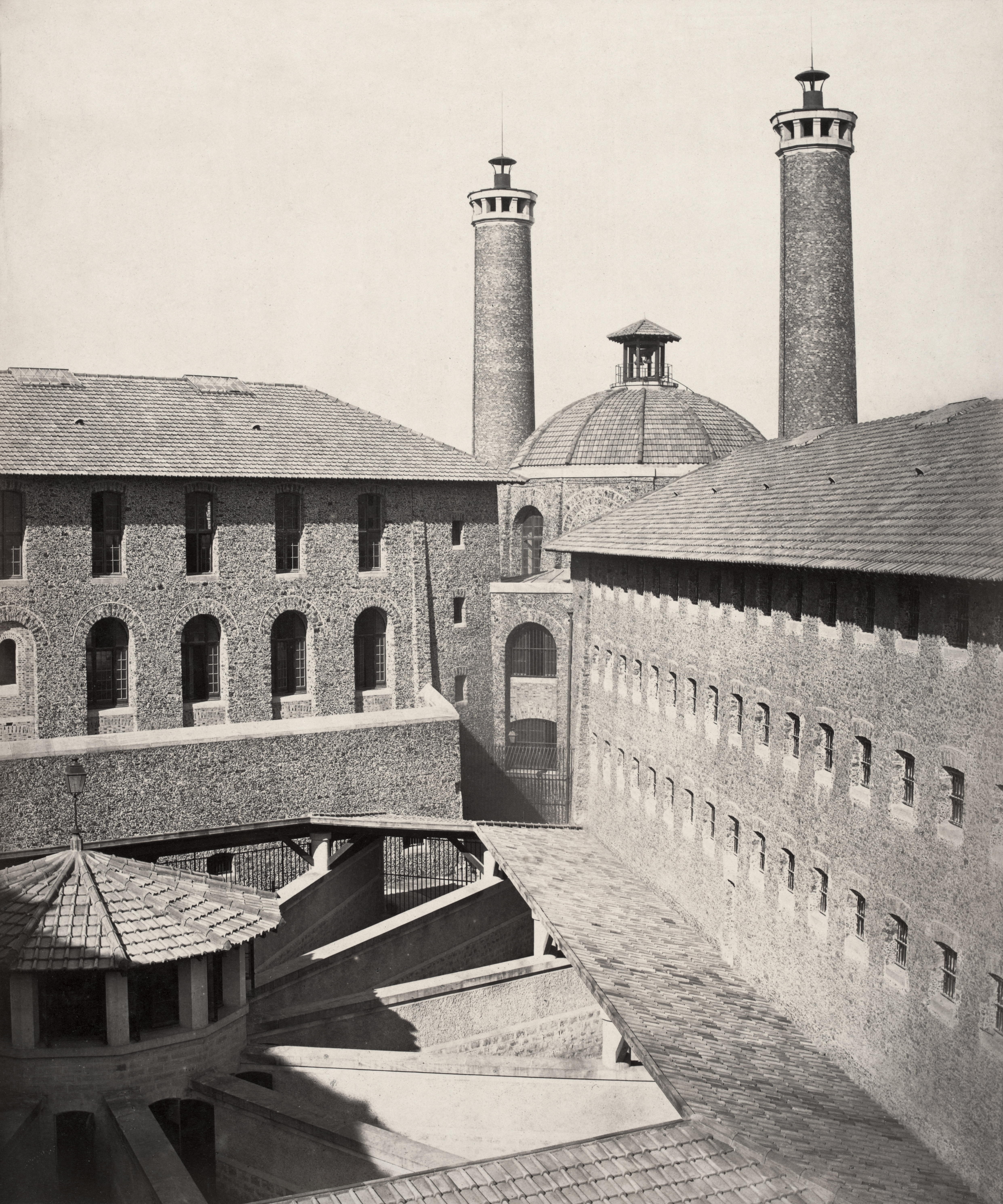 Elevated view across roof showing towers and hub and spoke design of central building, rows of barred windows.